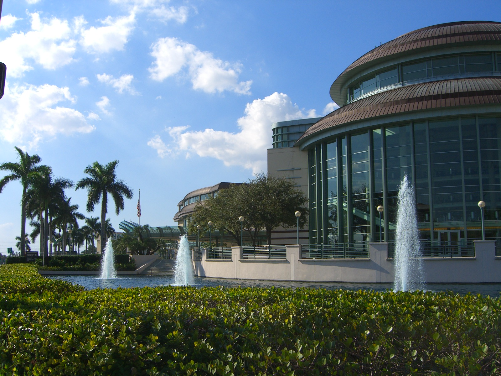 Photo by Nick Juhasz.